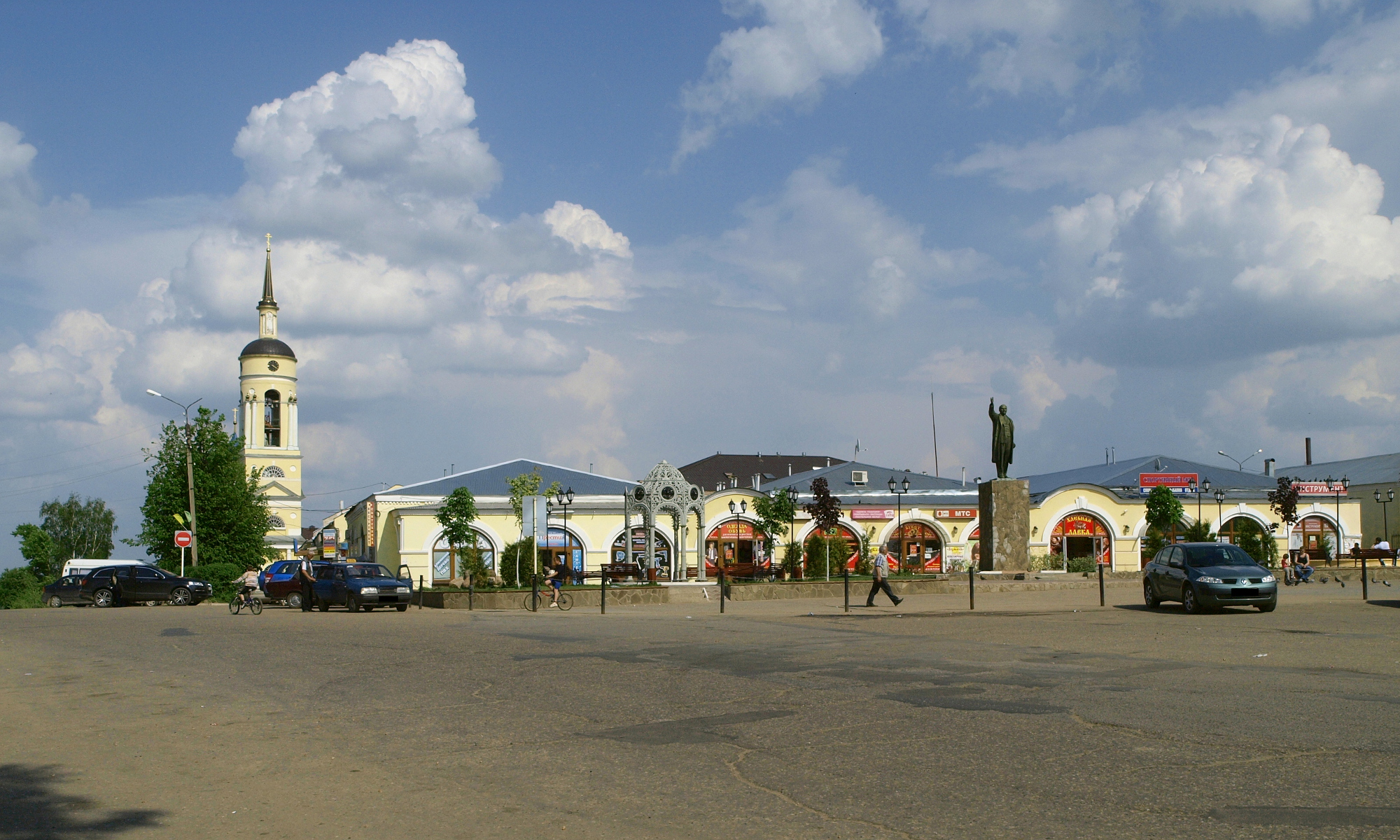 Borovsk, main square (view from west towards old trade rows).